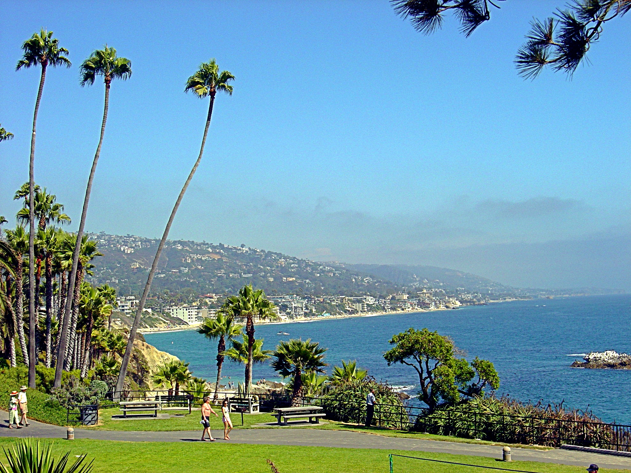 Heisler Park, Laguna Beach, California